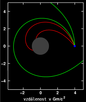 Light sent in different directions being deflected by a nearby massive body.